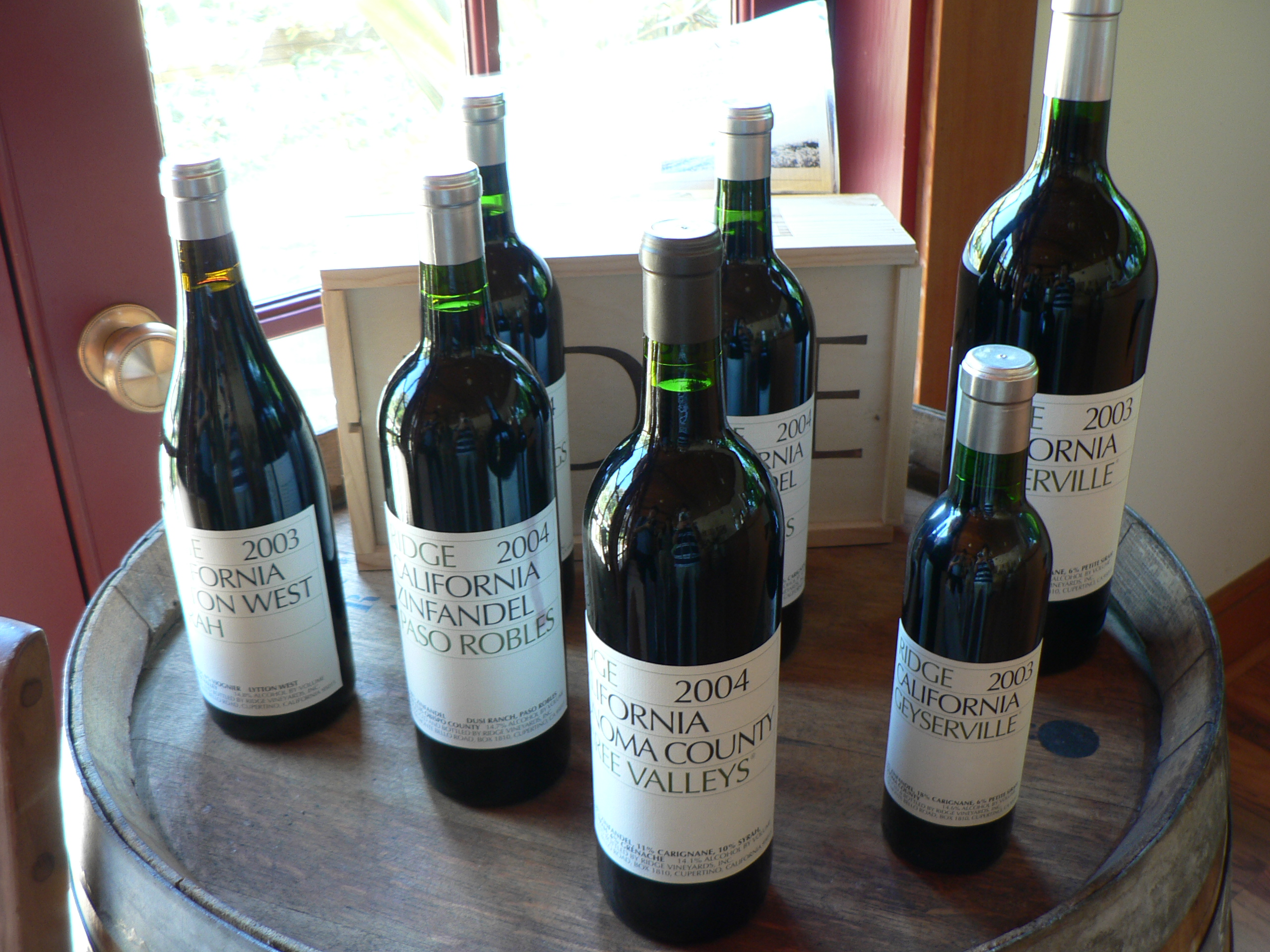 An assortment of Ridge Vineyards wine bottles, with their distinctive label design.